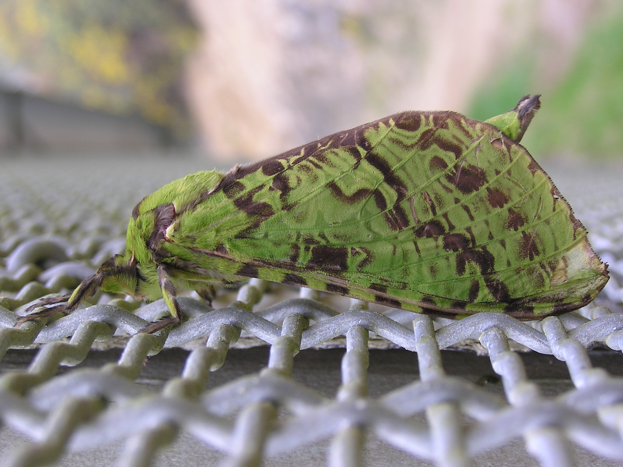 Female Puriri moth, side view, Wellington, New Zealand Māori: Pepe tuna; Mokoroa, Ngūtara; Pūngoungou Background fence scale